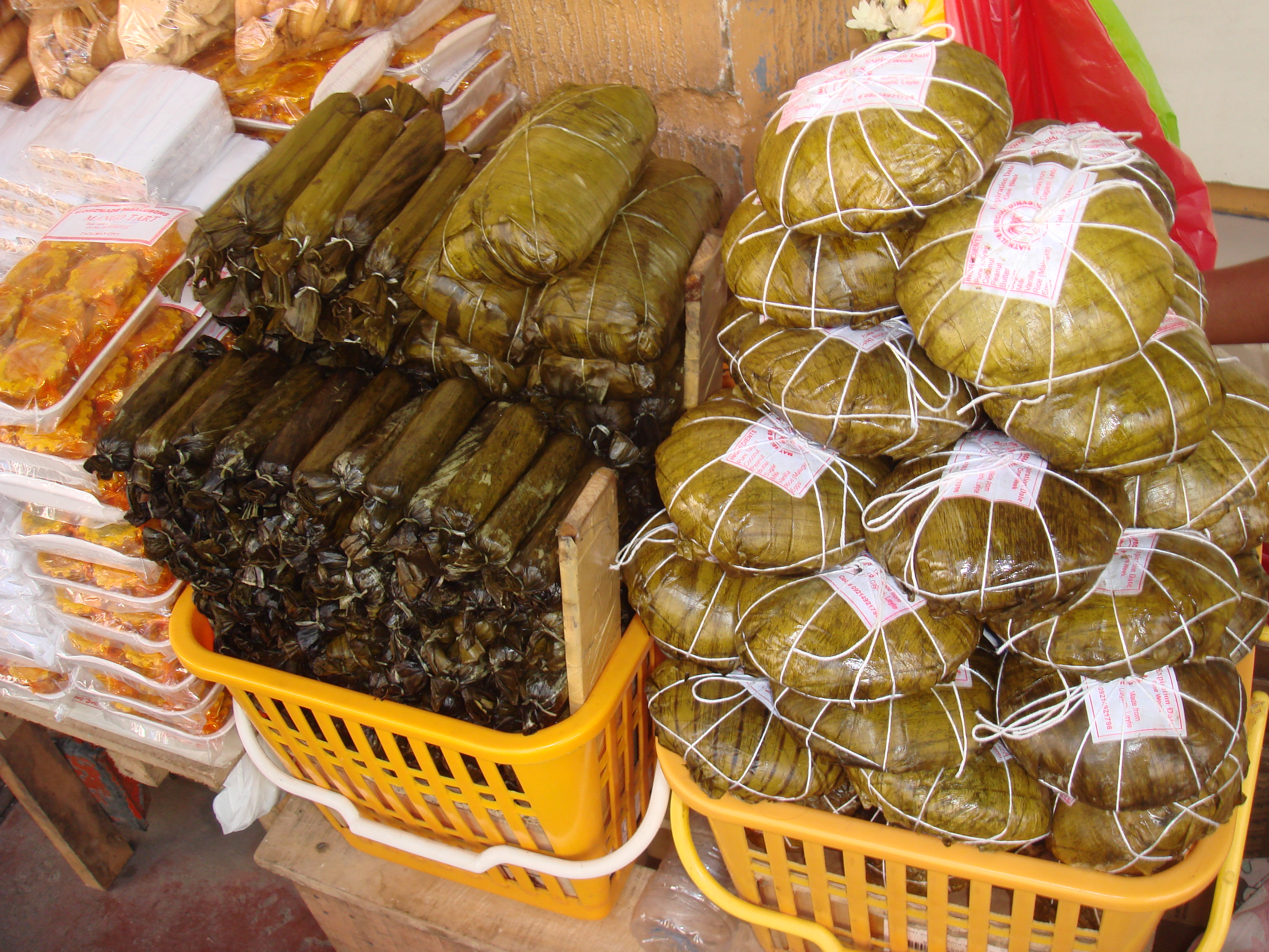 PASALUBONG - Front and Back left- MORON, back right - SAGMANI; Right yellow basket: Binago